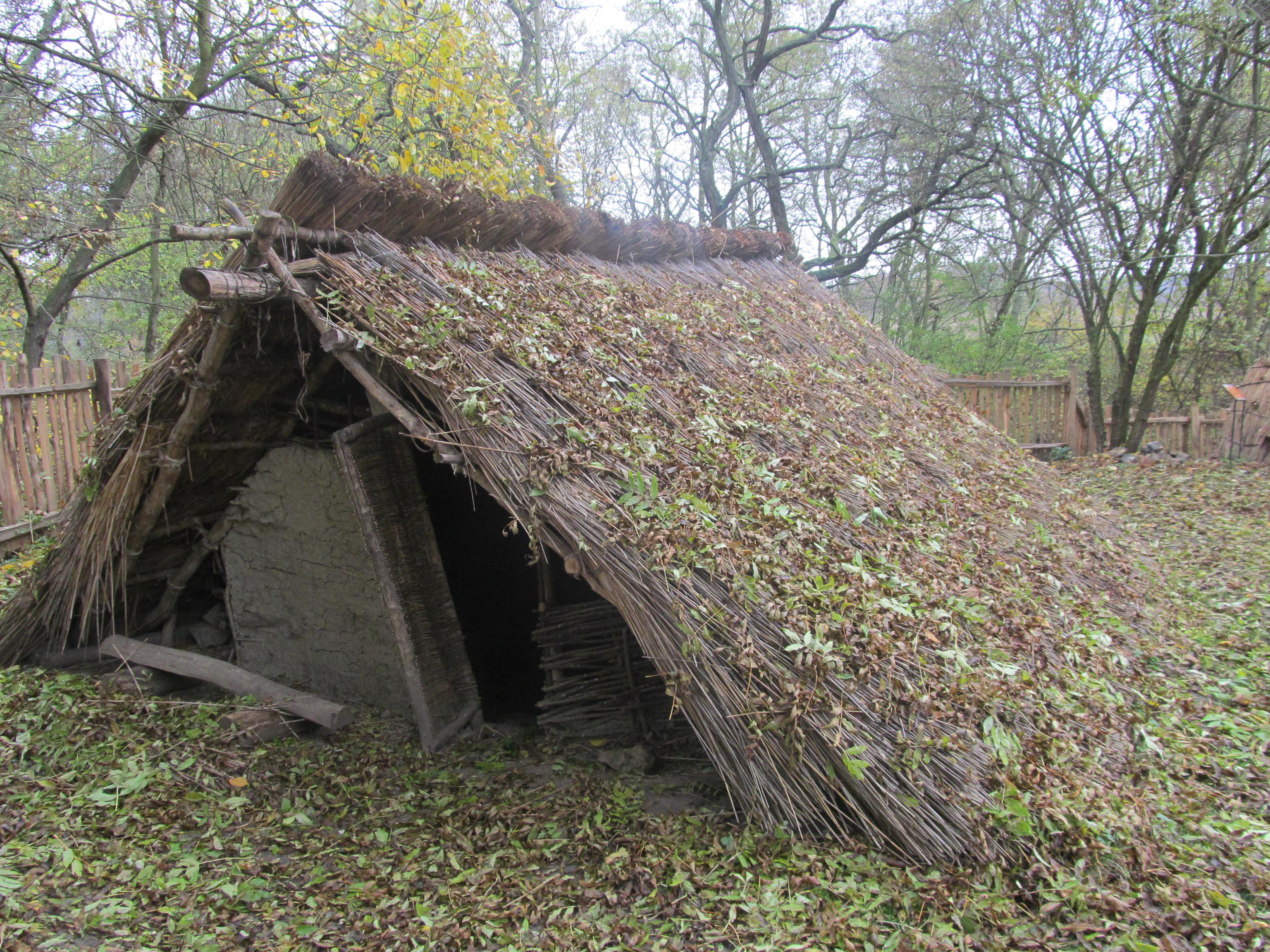 Imitation of early Slavonic half-dugout from the 6th century in the open air museum in Březno